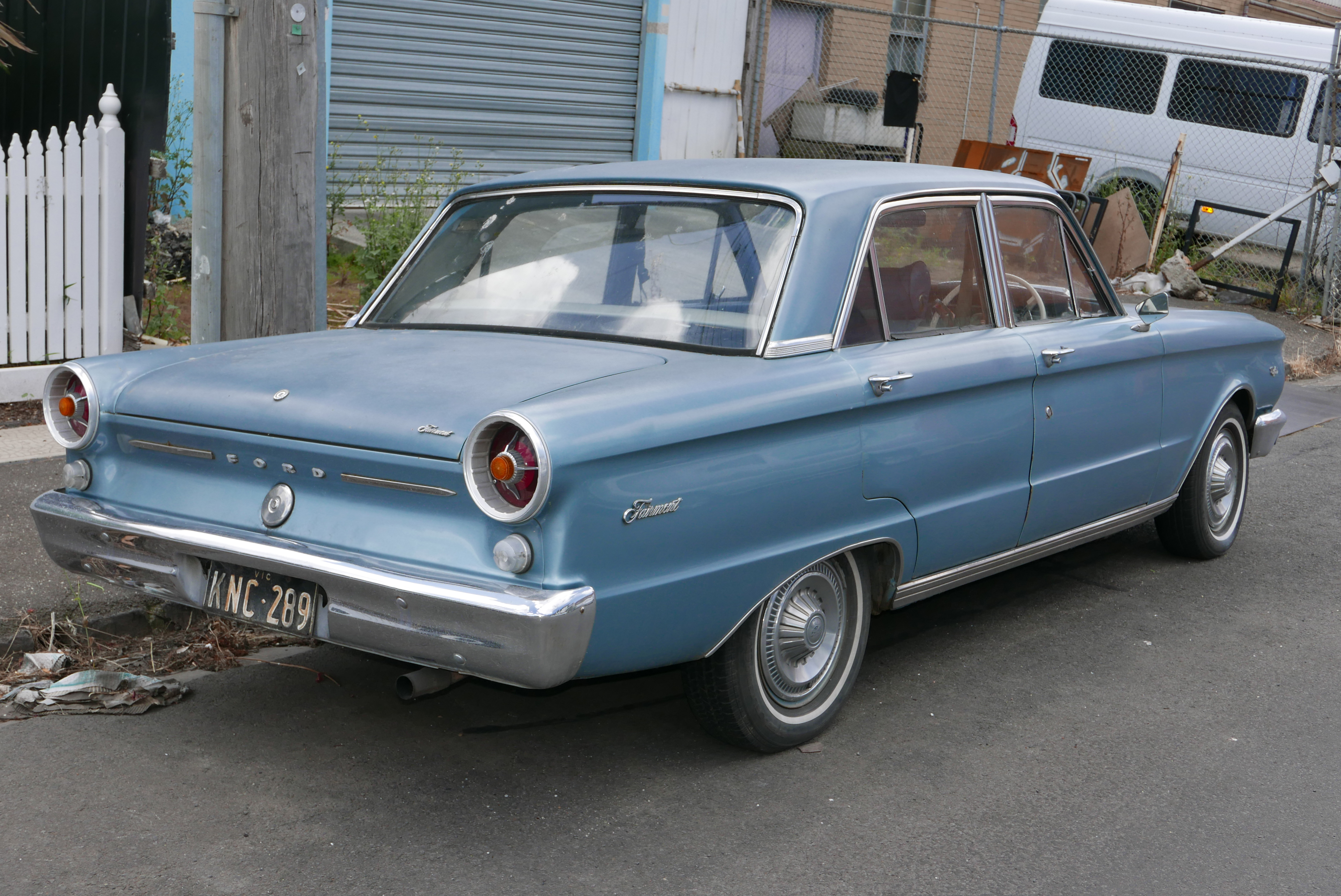 1965 Ford Fairmont (XP) sedan. Photographed in Brunswick, Victoria, Australia. Vehicle registration enquiry results Jurisdiction Victoria Registration KNC289 Chassis code Not available Engine code A2577 Compliance date Not available Year of manufacture 1965